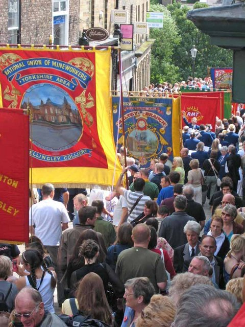 Durham Miners Gala 2007 The Durham Miners Gala is a mass celebration of the coal mining and Trade Union heritage of the North-East. It is held annually, having taken place nearly every year since 1871. This photo shows the parade, complete with banners and brass bands, assembling on the hill running down from Saddler Street to Elvet Bridge.